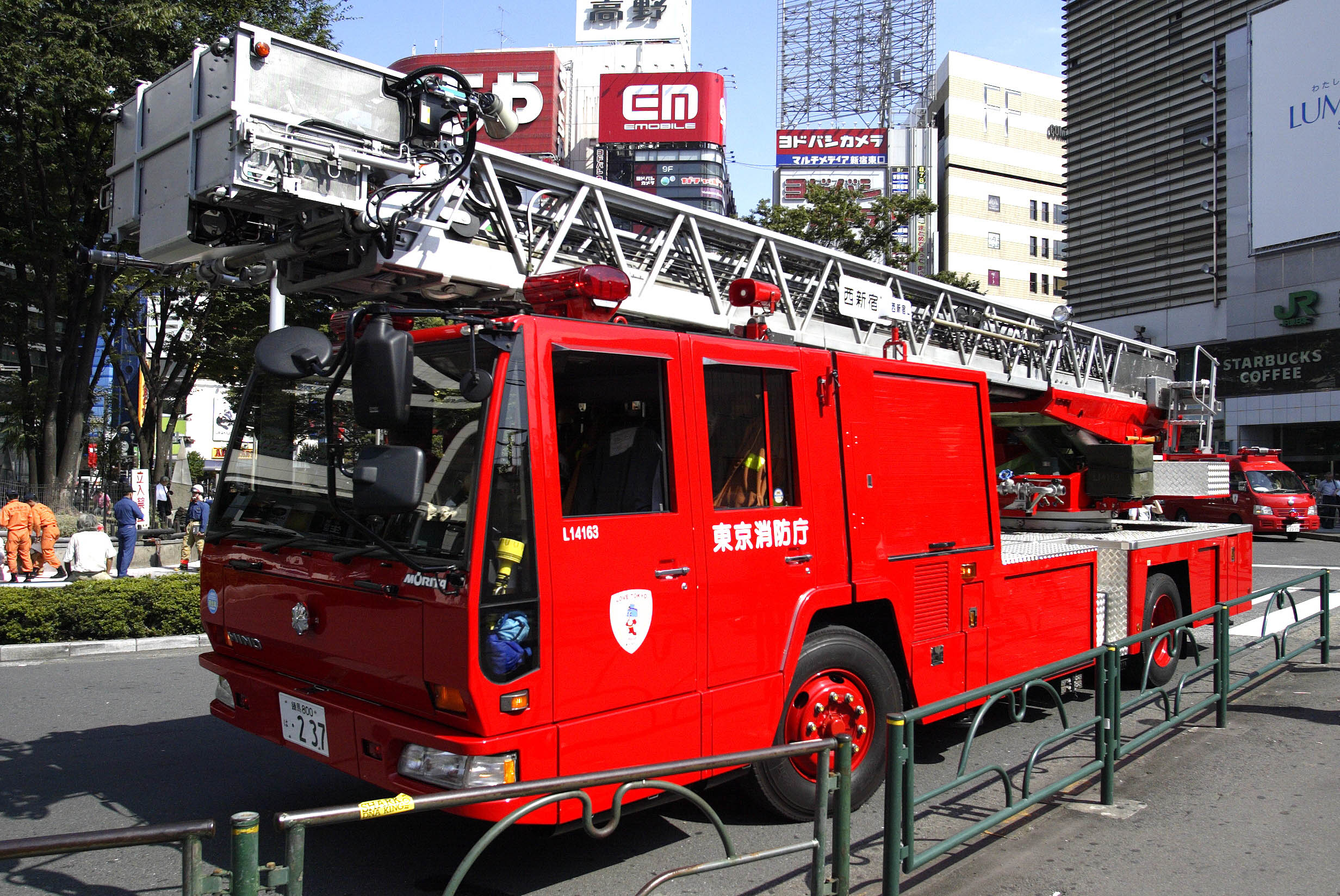 A turntable ladder truck fire engine parked outside JR Shinjuku station, in Shinjuku, Tokyo, 10th September 2008.